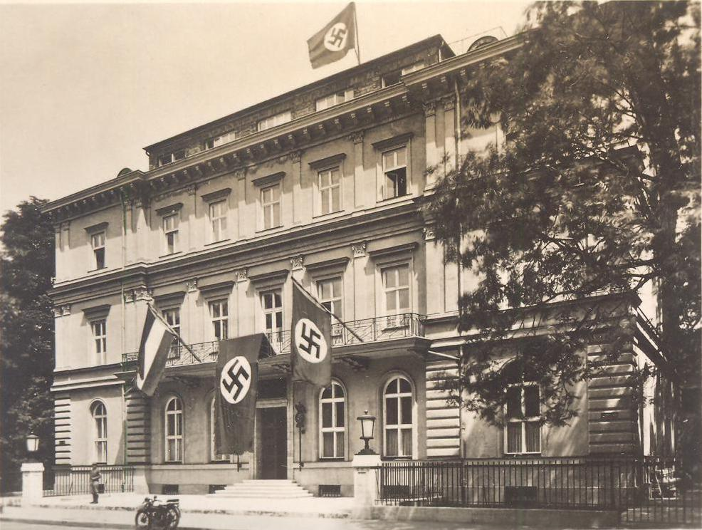 Brown House, Munich, Germany